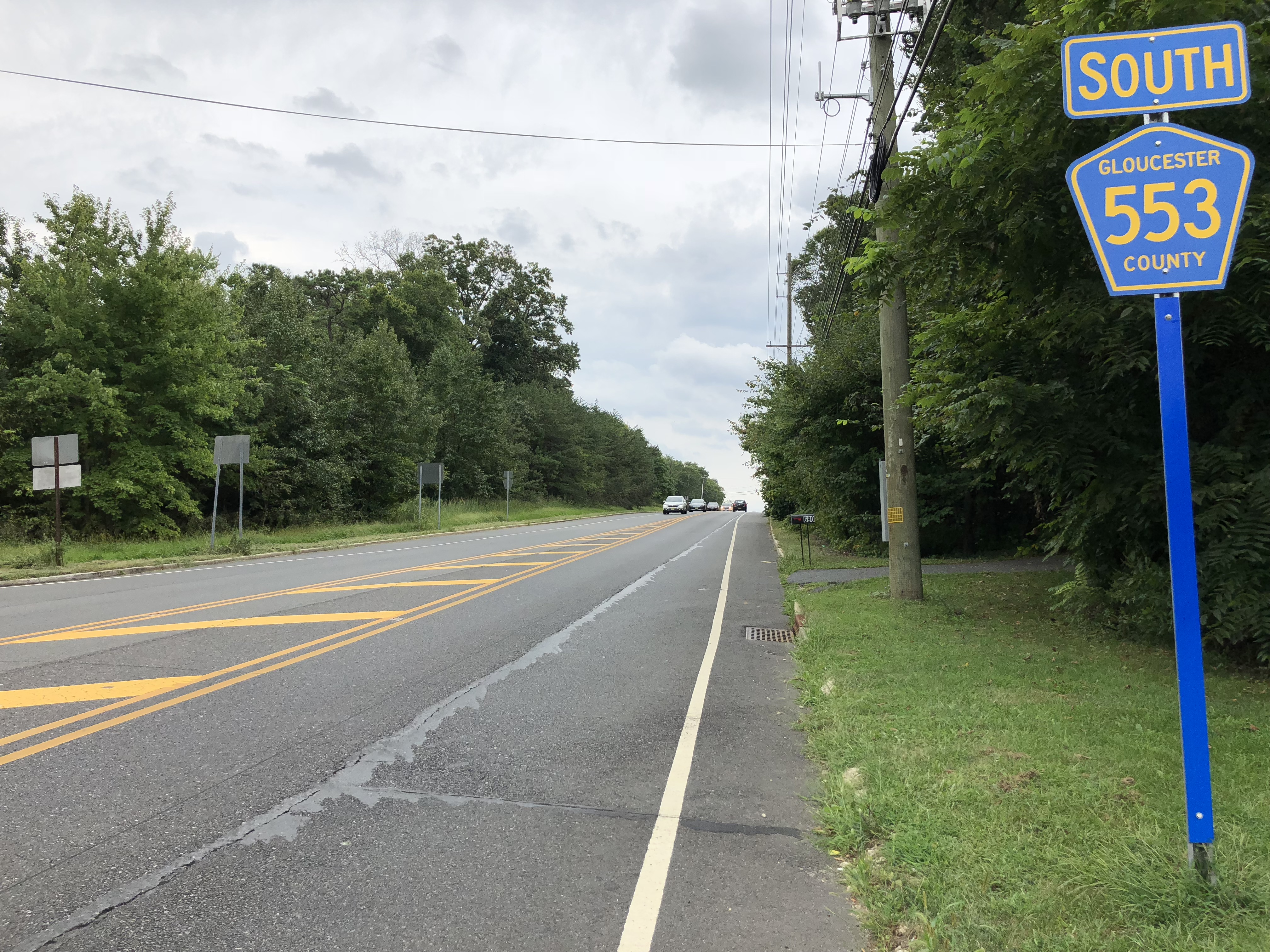 View south along Gloucester County Route 553 (Woodbury-Glassboro Road) just south of Gloucester County Route 603 (Blackwood-Barnsboro Road/Center Street) in Mantua Township, Gloucester County, New Jersey